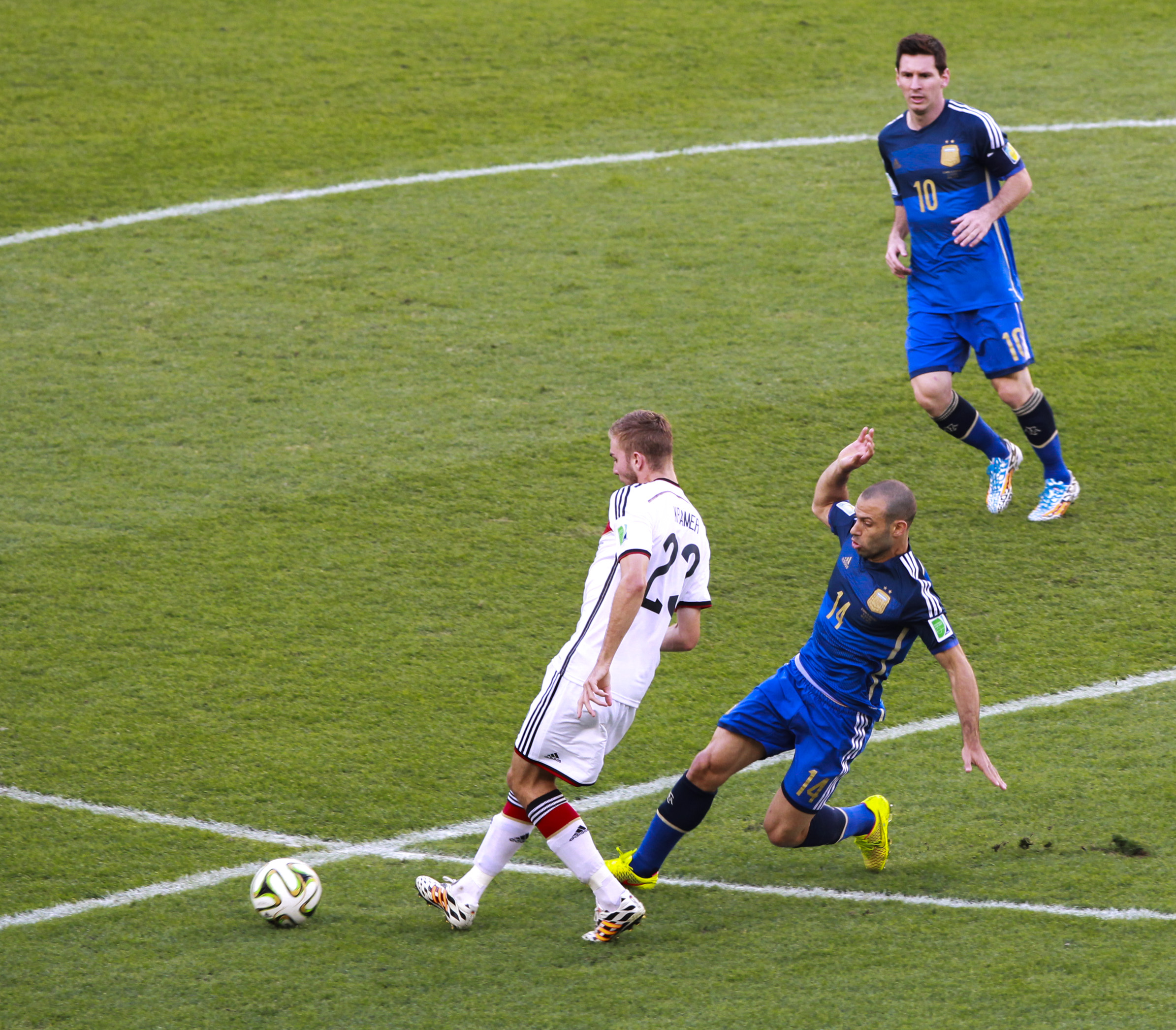 The final match of World Cup 2014 between Germany and Argentina 2014-07-13